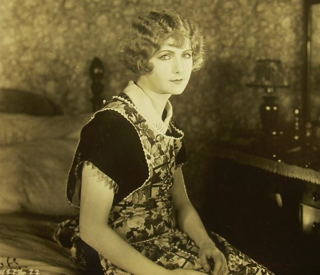 Edna Murphy in The Little Giant (1926) - publicity still (cropped).